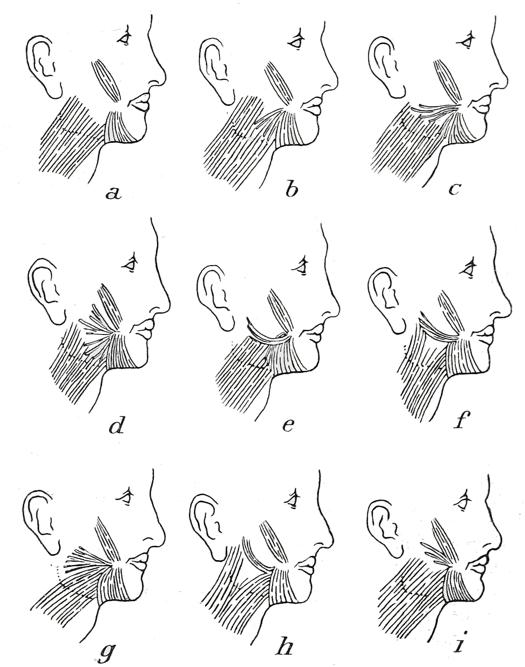 An anatomical illustration from the 1921 German edition of Anatomie des Menschen: ein Lehrbuch für Studierende und Ärzte with latin terminology.